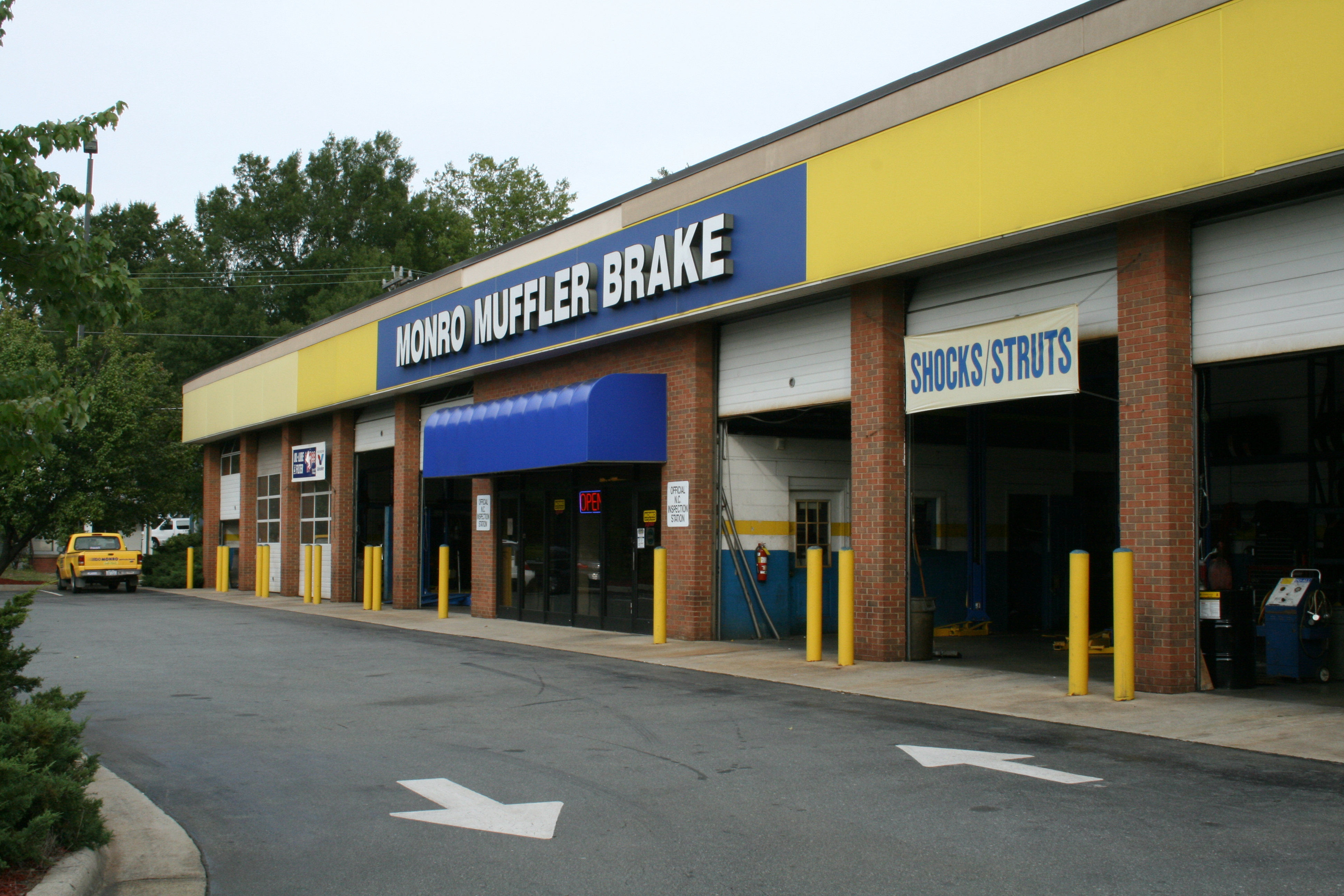 Munro Muffler and Brake at the University Center plaza in Durham, North Carolina.